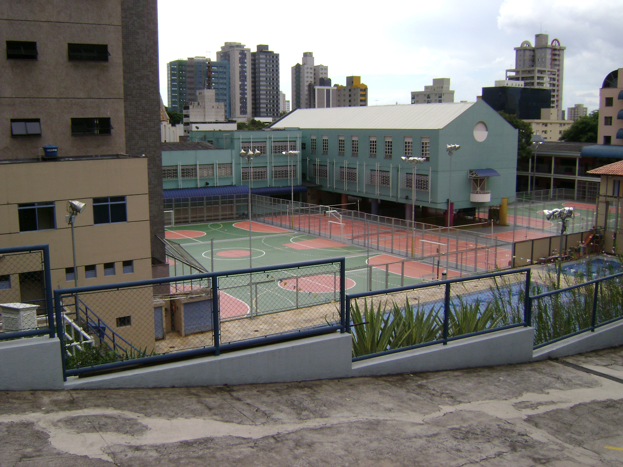 Quadras de um clube, em Belo Horizonte.